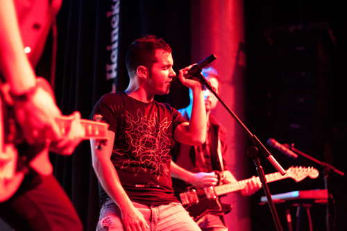 Andrés de Walden Uno en directo